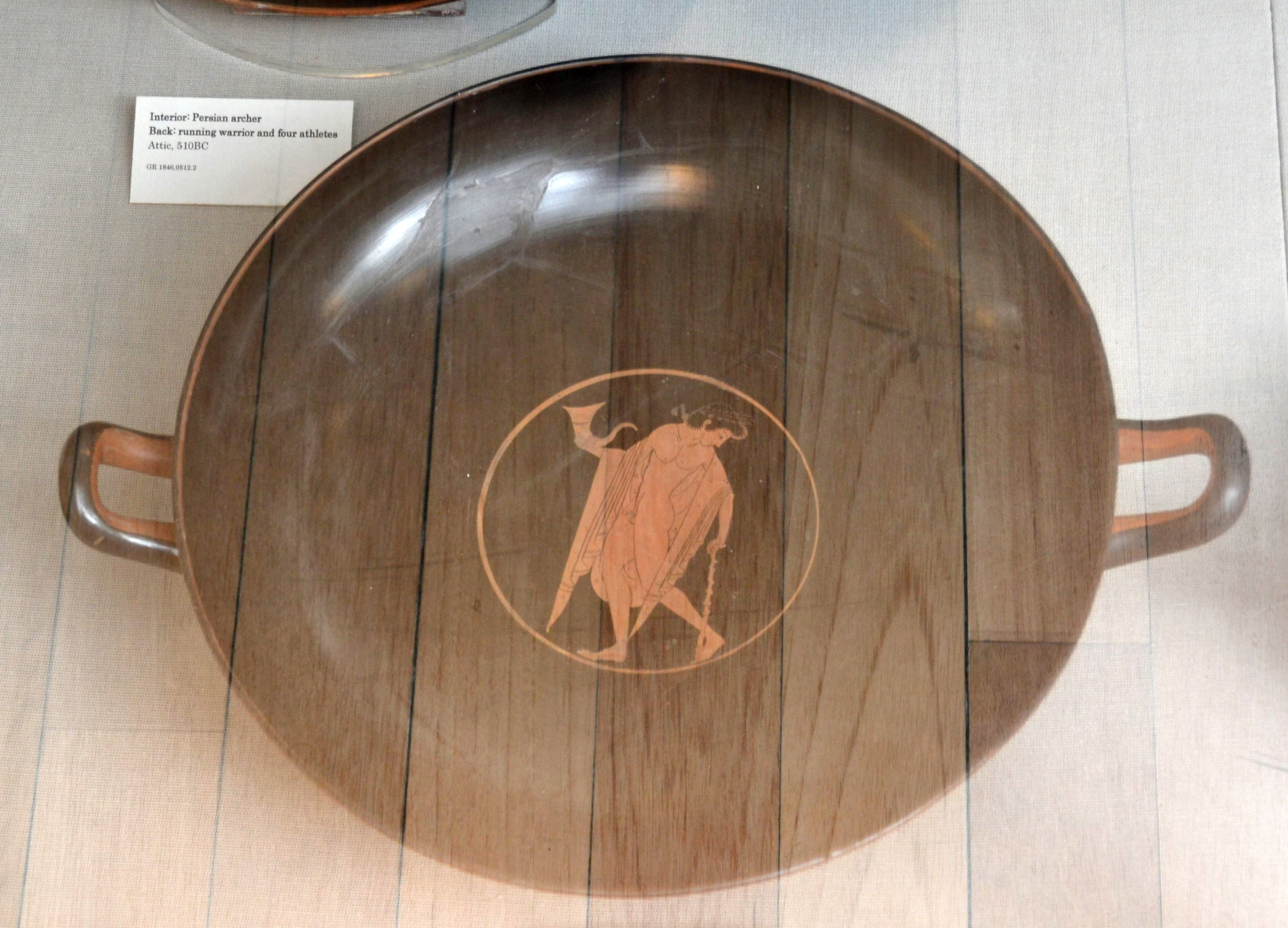 Fabric: ATHENIAN Technique: RED-FIGURE Shape Name: CUP Provenance: ITALY, ETRURIA, VULCI Date: -525 to -475 Attributed To: Near LOUVRE G 36, P OF by BEAZLEY Decoration: A,B: DEEDS OF THESEUS, PROKRUSTES, KERKYON, MINOTAUR, BULL, SOW, HERMES I: KOMOS, YOUTH WITH DRINKING HORN AND STAFF Current Collection: London, British Museum: E36 Publication Record: Beazley, J.D., Attic Red-Figure Vase-Painters, 2nd edition (Oxford, 1963): 115.3 Beazley, J.D., Attic Red-figure Vase-painters, 1st ed. (Oxford, 1942): 83.7 Beazley, J.D., Attische Vasenmaler des rotfigurigen Stils (Tubingen, 1925): 50.6 Berard, C. (ed.), Images et societe en Grece ancienne, L'iconographie comme methode d'analyse, Cahiers d'Archeologie Romande 36 (Lausanne, 1987): 127, FIG.11 (B) Brommer, F., Theseus (Darmstadt, 1982): PL.8A-B (A,B) Burn, L. and Glynn, R., Beazley Addenda (Oxford, 1982): 86 Carpenter, T.H., with Mannack, T., and Mendonca, M., Beazley Addenda, 2nd edition (Oxford, 1989): 174